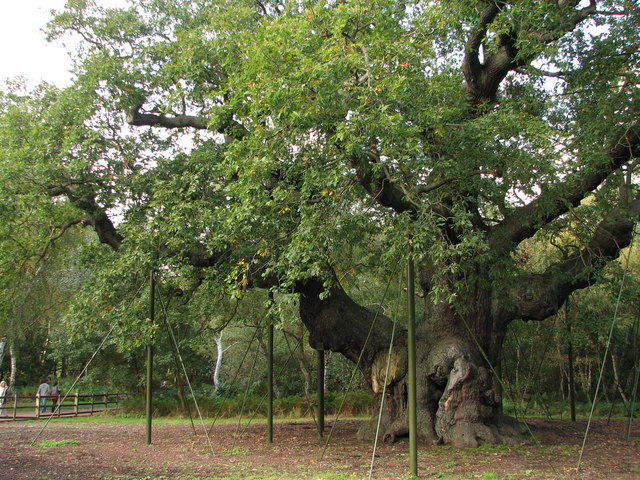 Major Oak Major Oak in Sherwood Forest. Reputed to be over 800 years old.